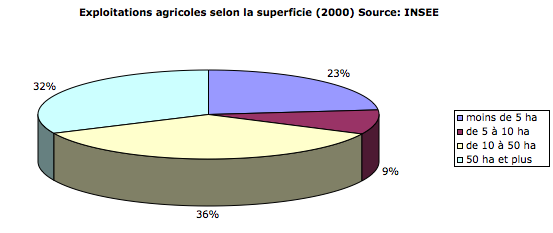 Size of the farms in Corsica